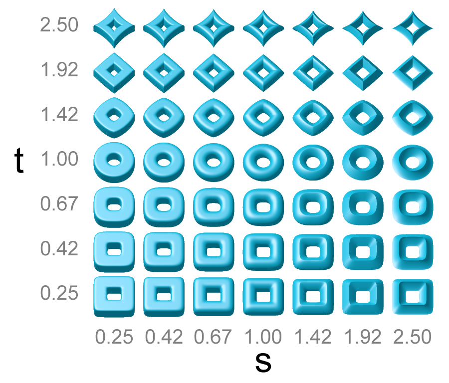 Table of supertoroids.